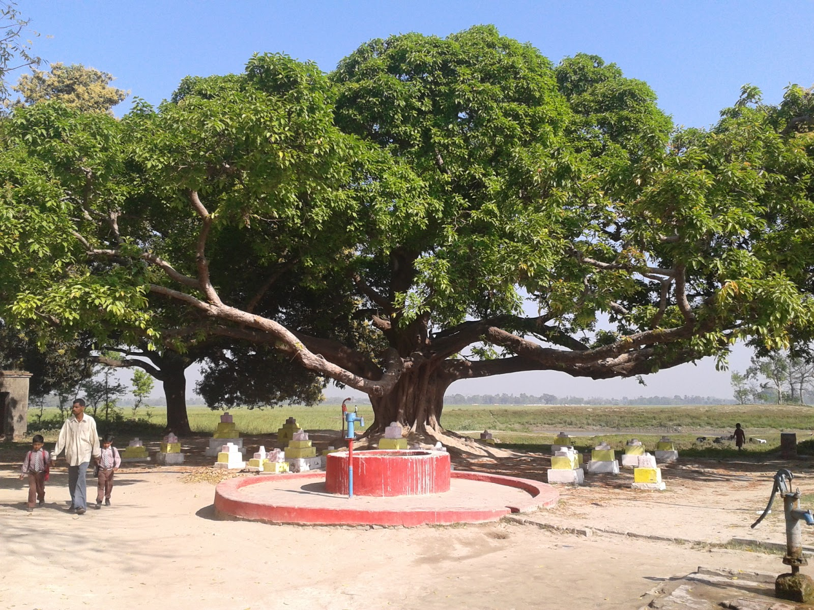 unique place in areraj